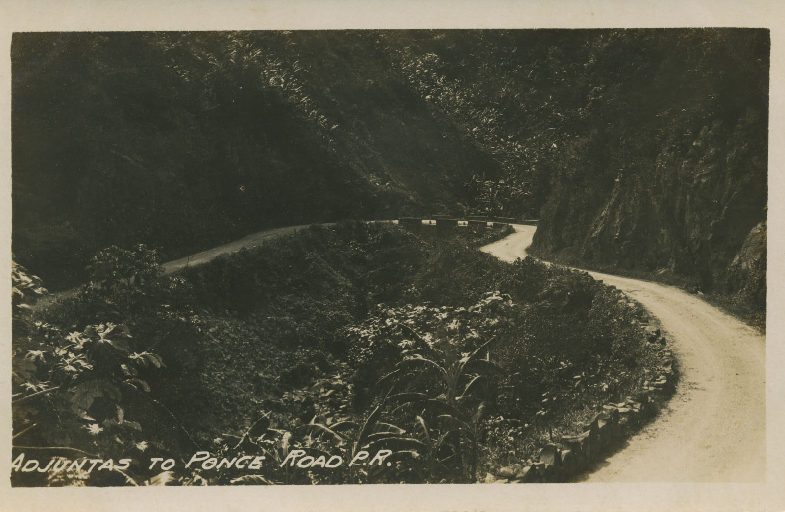 Attilio Moscioni, Real-photo postcard. Gleach/Santiago-Irizarry Collection